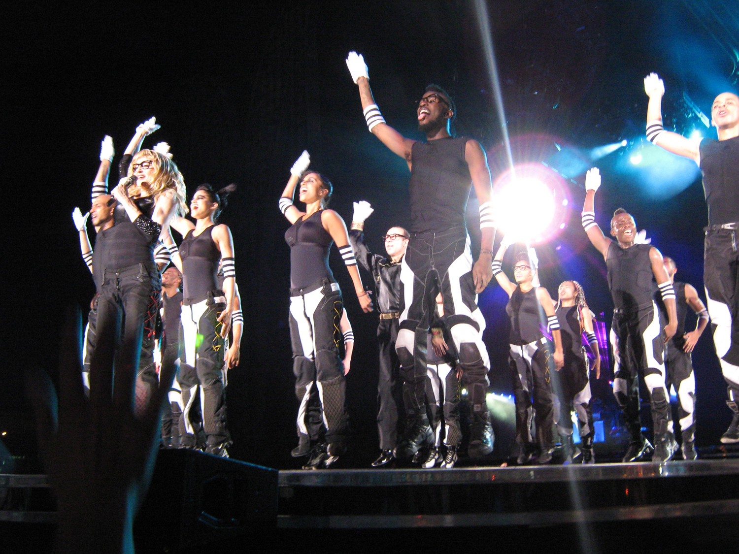 Madonna performing "Give It 2 Me" during her 2nd leg of the S&S Tour in Romania